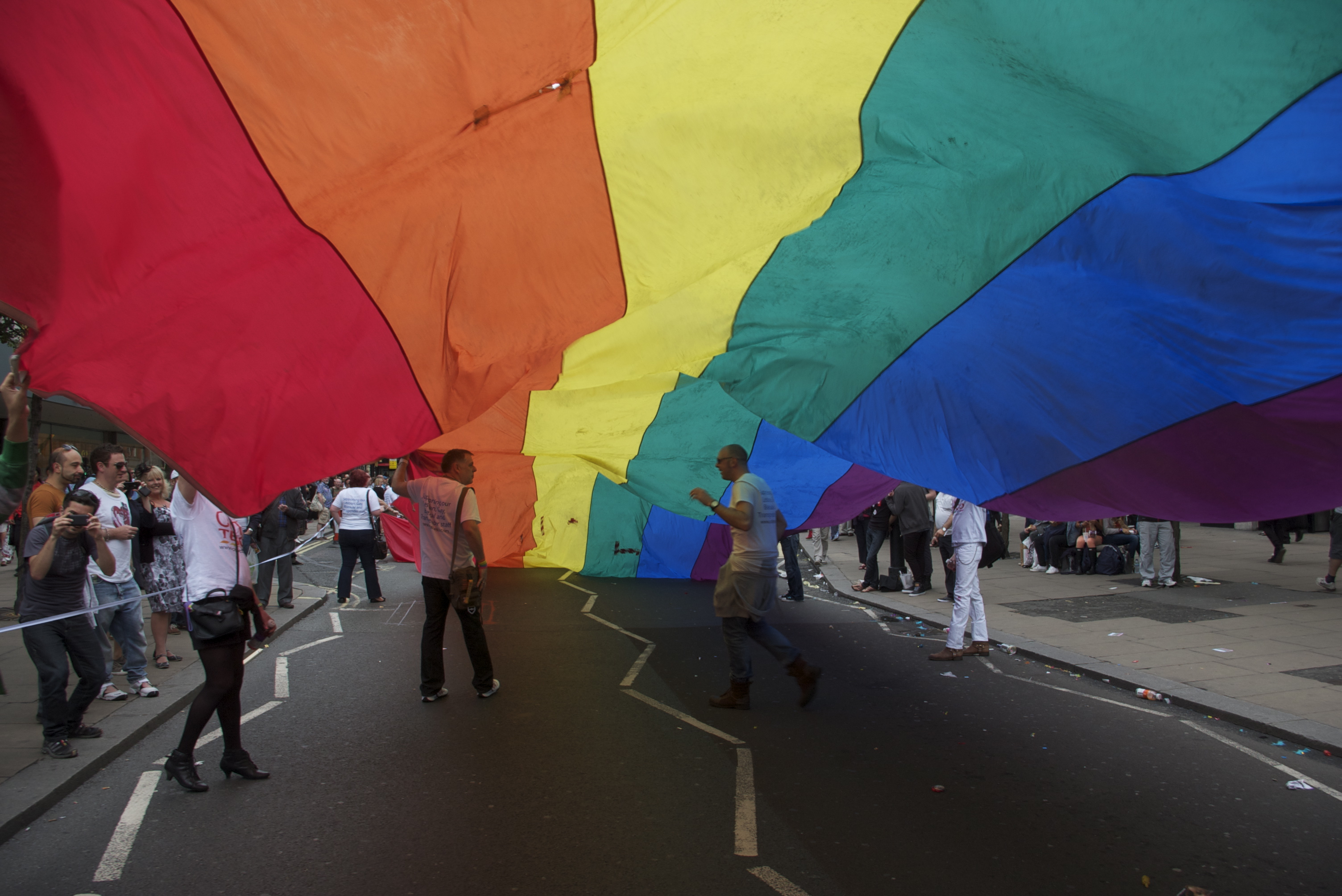 Marchers at Pride London/WorldPride 2012.